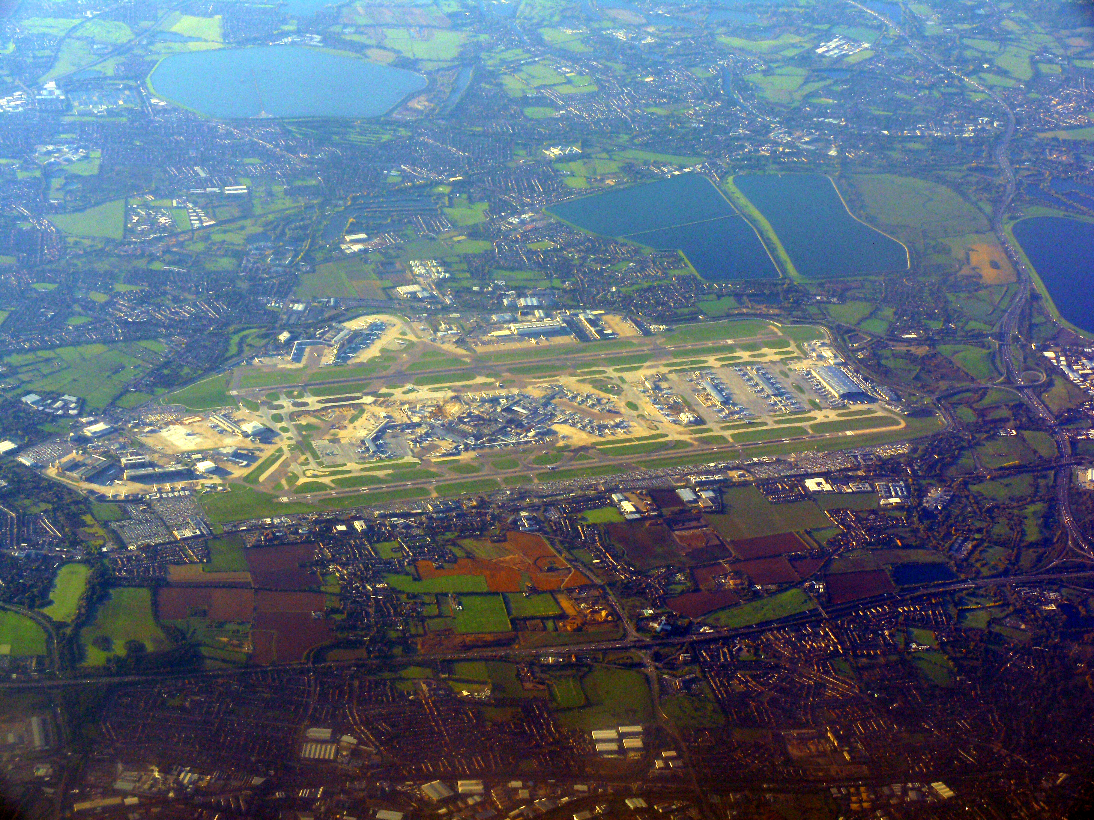 London Heathrow Airport or Heathrow, at the far south of the London Borough of Hillingdon, is the largest airport in the United Kingdom. It is close to two relatively busy sections of motorway (M4 and M25) shown and the surrounding land, as can be traced in many parks, sports fields, green buffer heaths, lakes and a few residual farms (and great reservoirs built on woodland and grazing land, east and west, respectively), was mainly rural in use until the 1960s; it widely has a gravel extraction use leading to most of the smaller lakes. The nascent towns of Staines and Ashford fully shown are linked by railway to London.